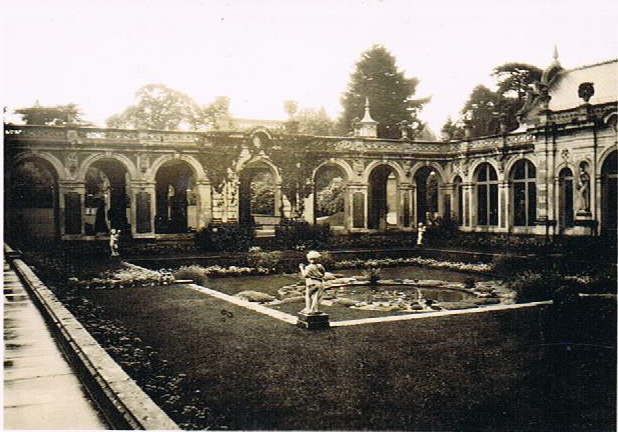 Lily Pond and Statues at Somerleyton Gardens, From Harold M. Monck's Journal.